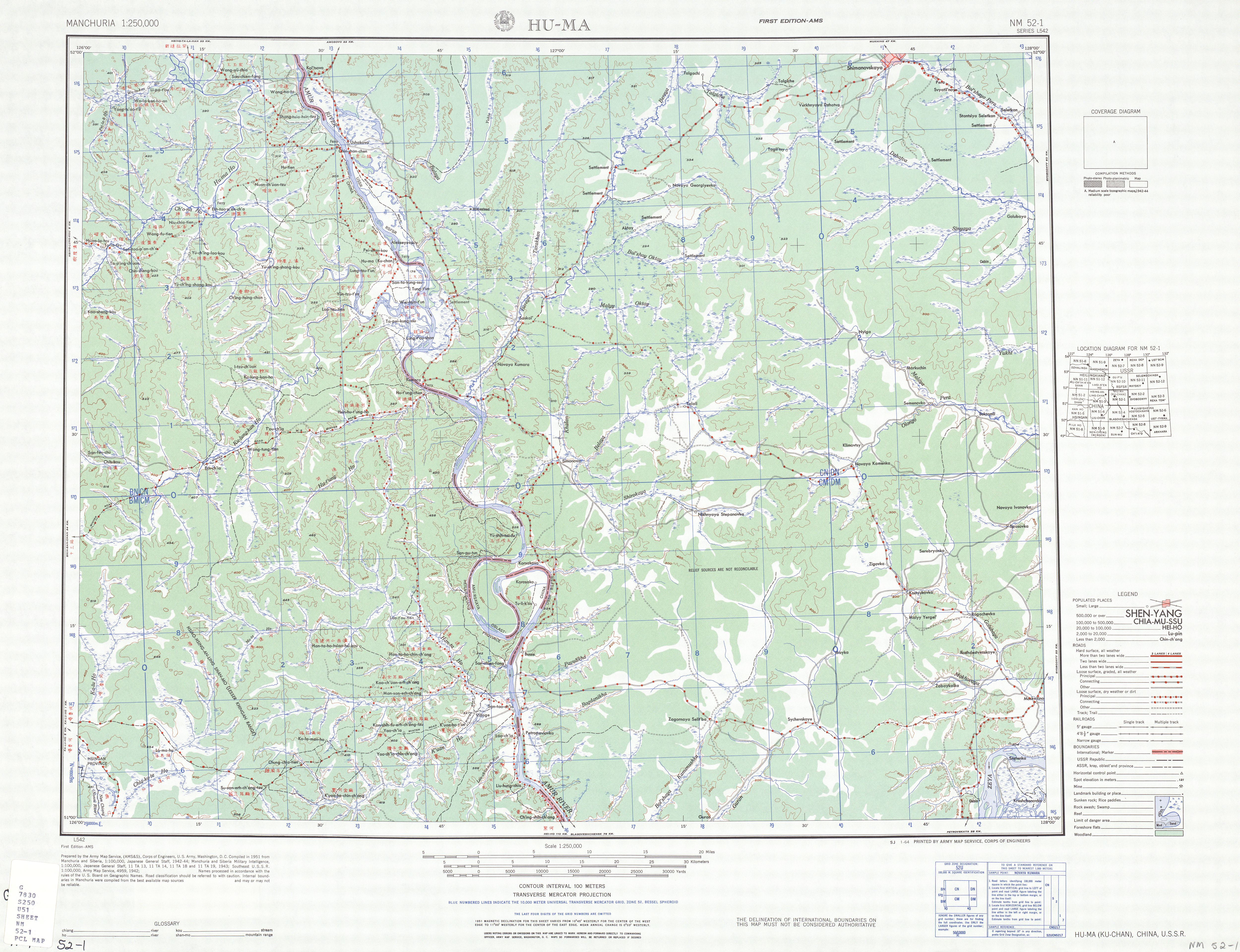 Map of Huma (Hu-ma, Ku-chan) area, Heilongjiang